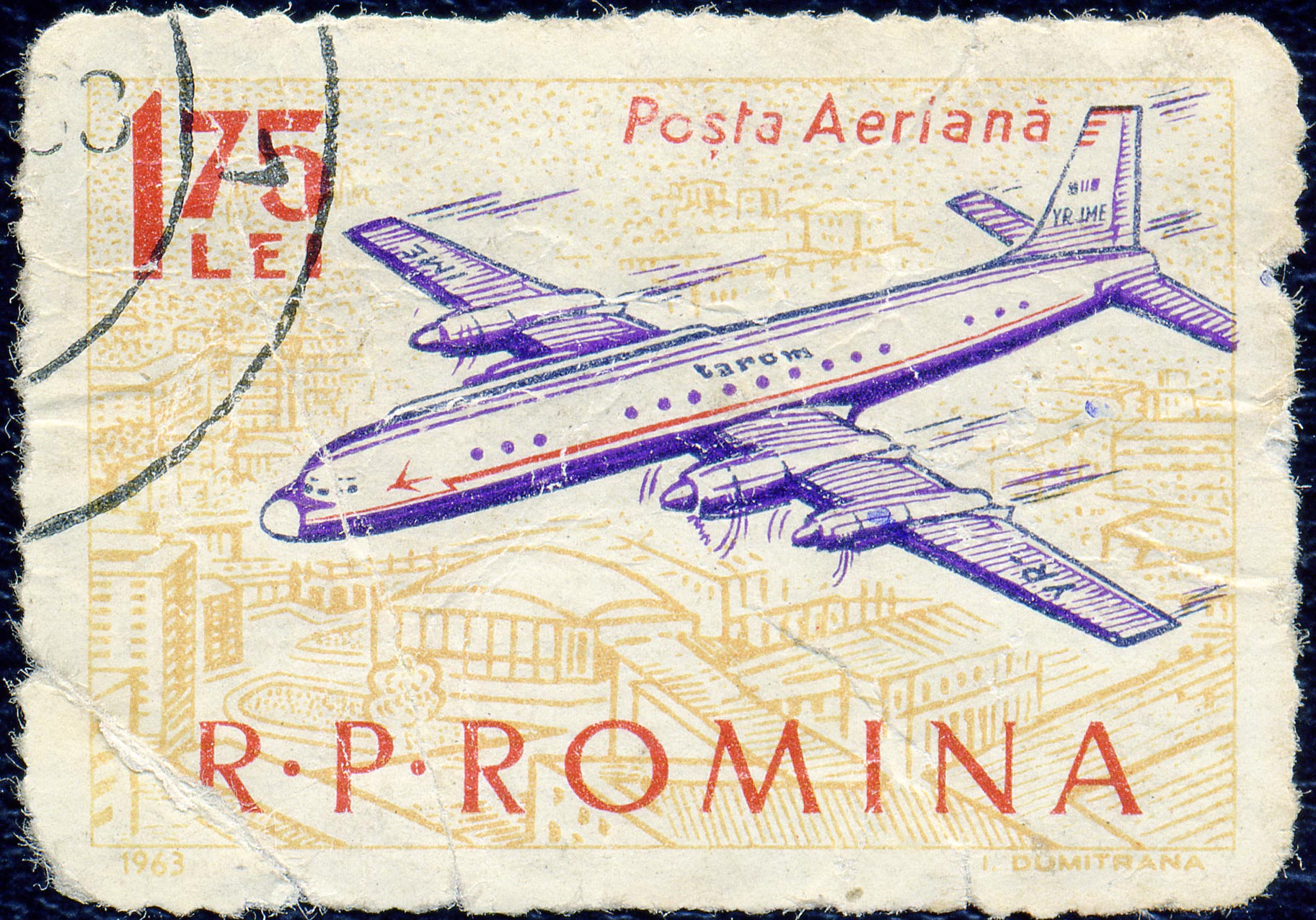 Stamp of Romania. 1963. Posta aeriana